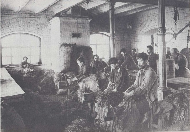 Rukavishnikov House of Diligence